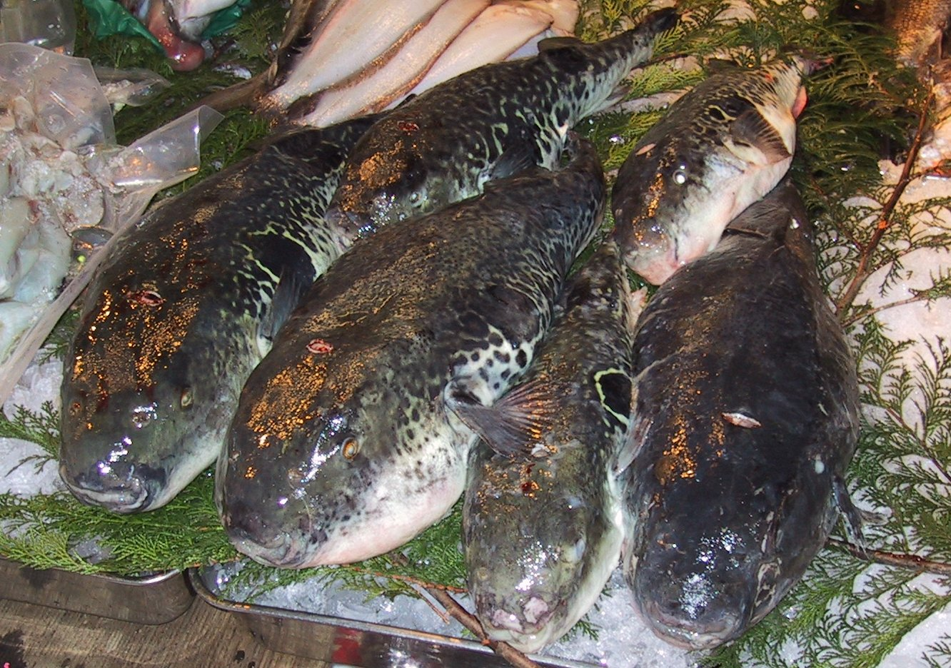 A tray of Fugu rubripes on ice. This is a picture of a tray with 6 pufferfish of the species Takifugu rubripes on sale at the Tsukiji fish market in Tokyo, taken in March 2002 by me. The fish are sold for consumption at Japanese restaurants.